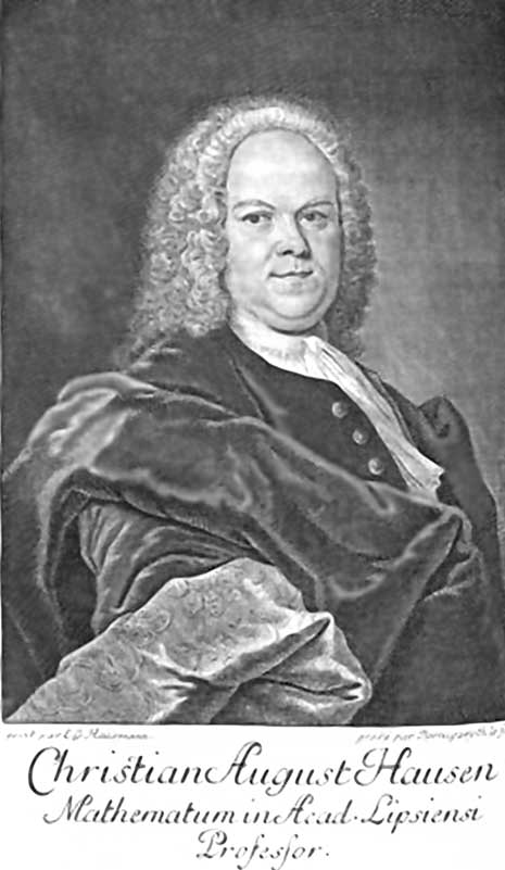 Christian August Hausen the Younger (1693-1743) Mathematician, Mineralogist, Astronomer and Physicist from Germany